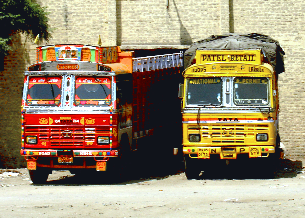 Tata trucks shot from the train to Delhi.